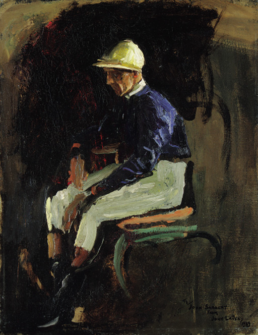 Portrait of Joe Childs (1884-1958)